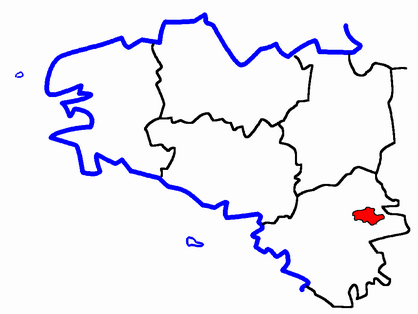 Description: Map for localisazion of cantons of Pays-de-Loire, region in France Source: made by Hervé Tigier in april 2005 from another large map (published in 1990)